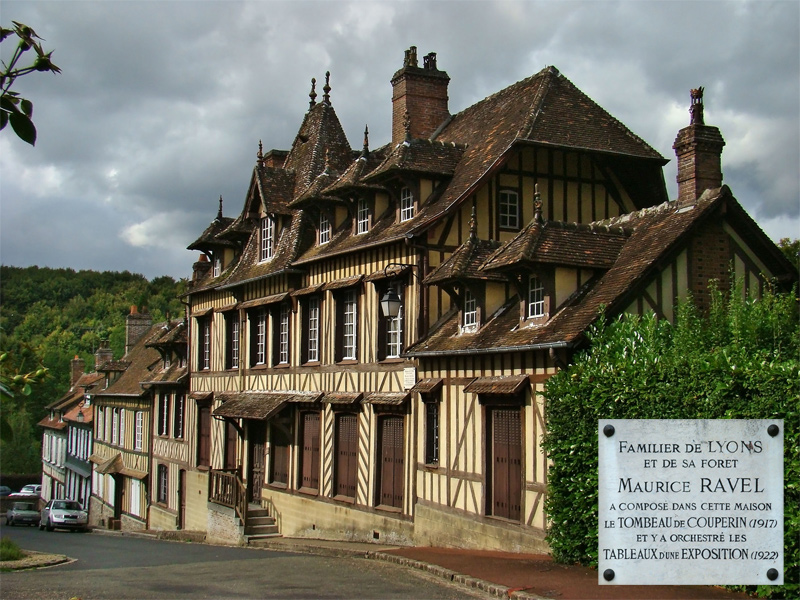 Translation of the inscription: Familiar with Lyons and its forest, Maurice Ravel composed in this house "Le Tombeau de Couperin" (1917) and orchestrated here the "Pictures at an Exhibition" suite (1922).